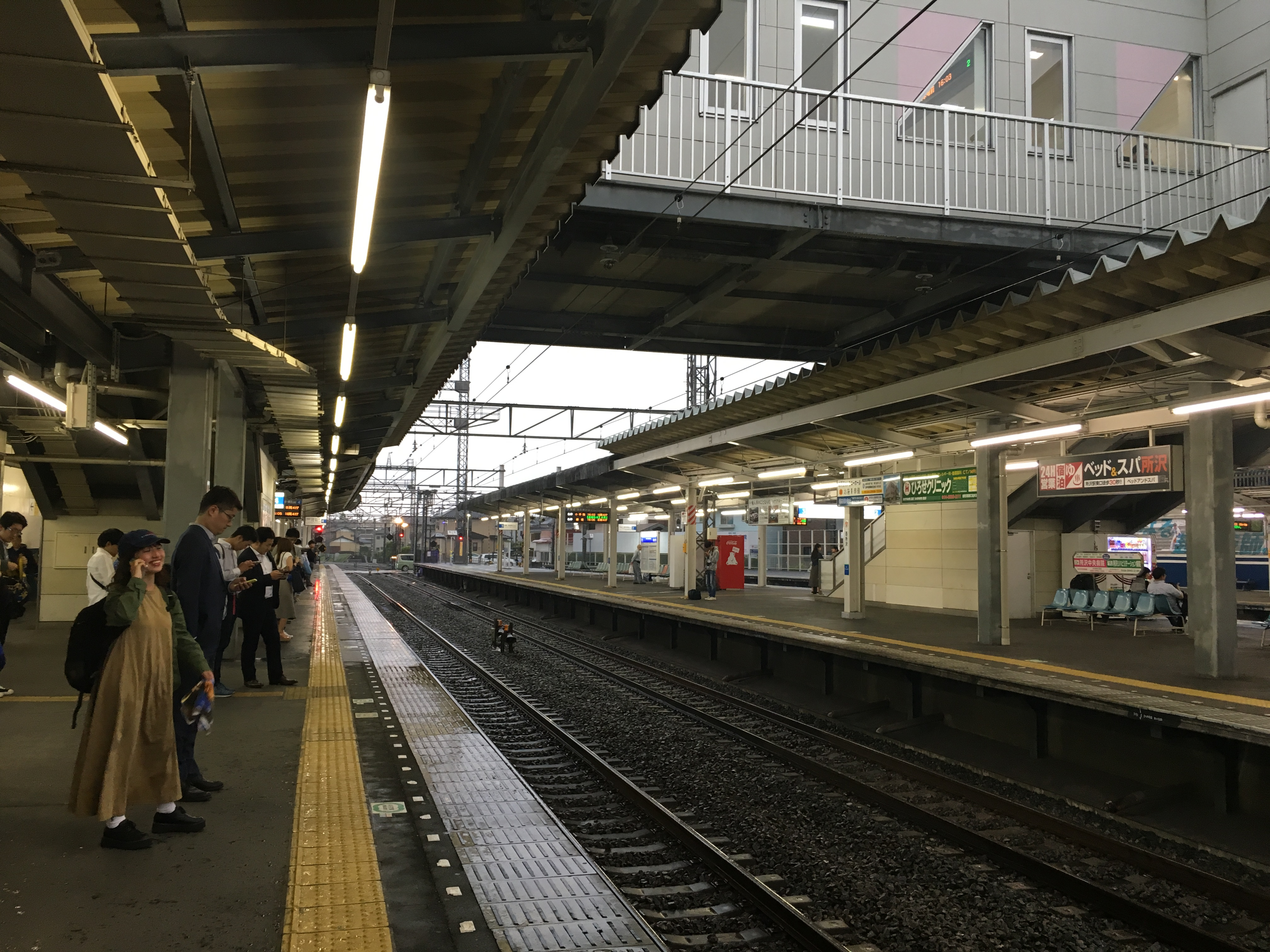 西所沢駅のホーム (Nishi-Tokorozawa Station platforms)